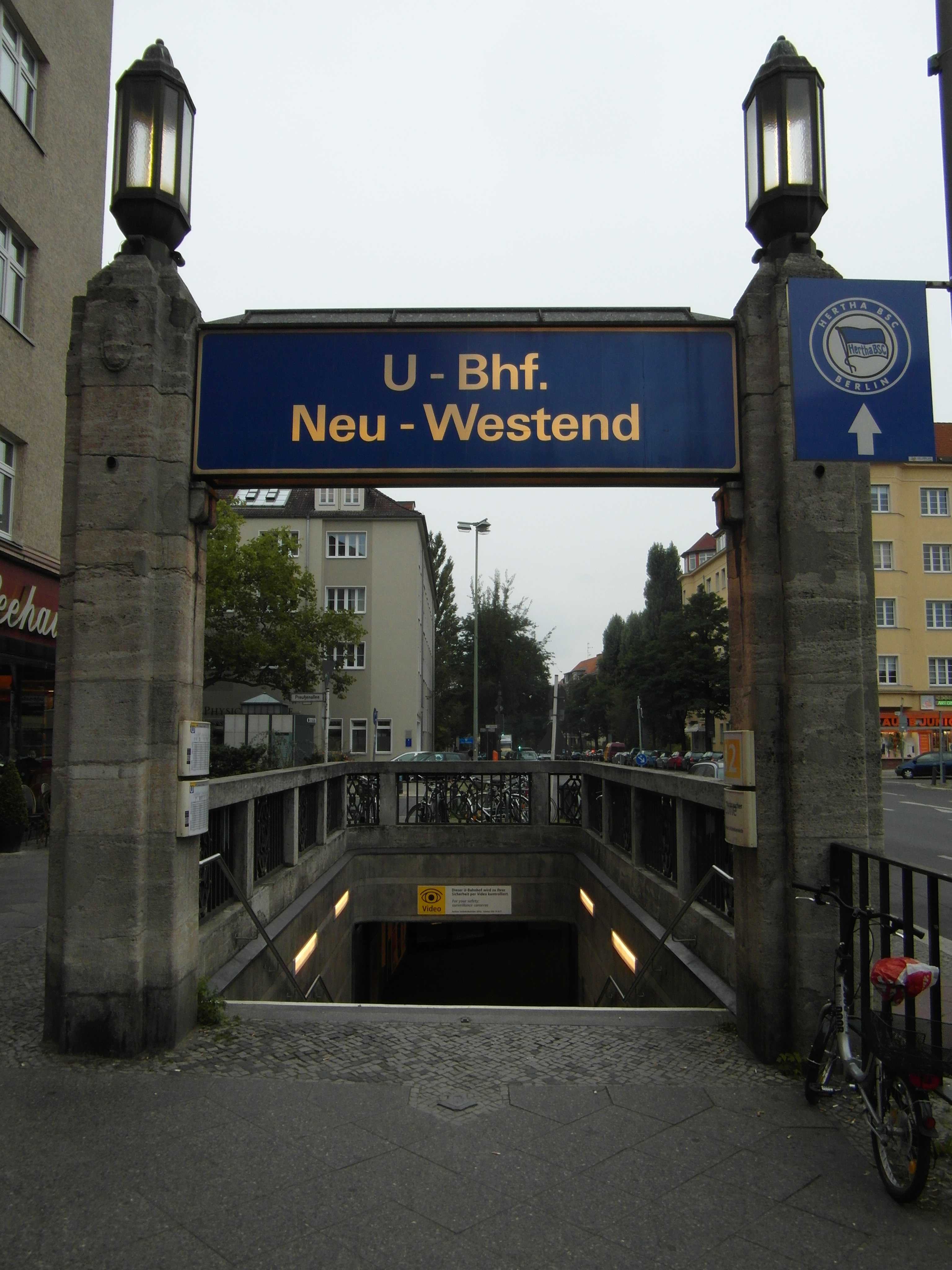 Neu-Westend underground station, line U2, Berlin, Germany